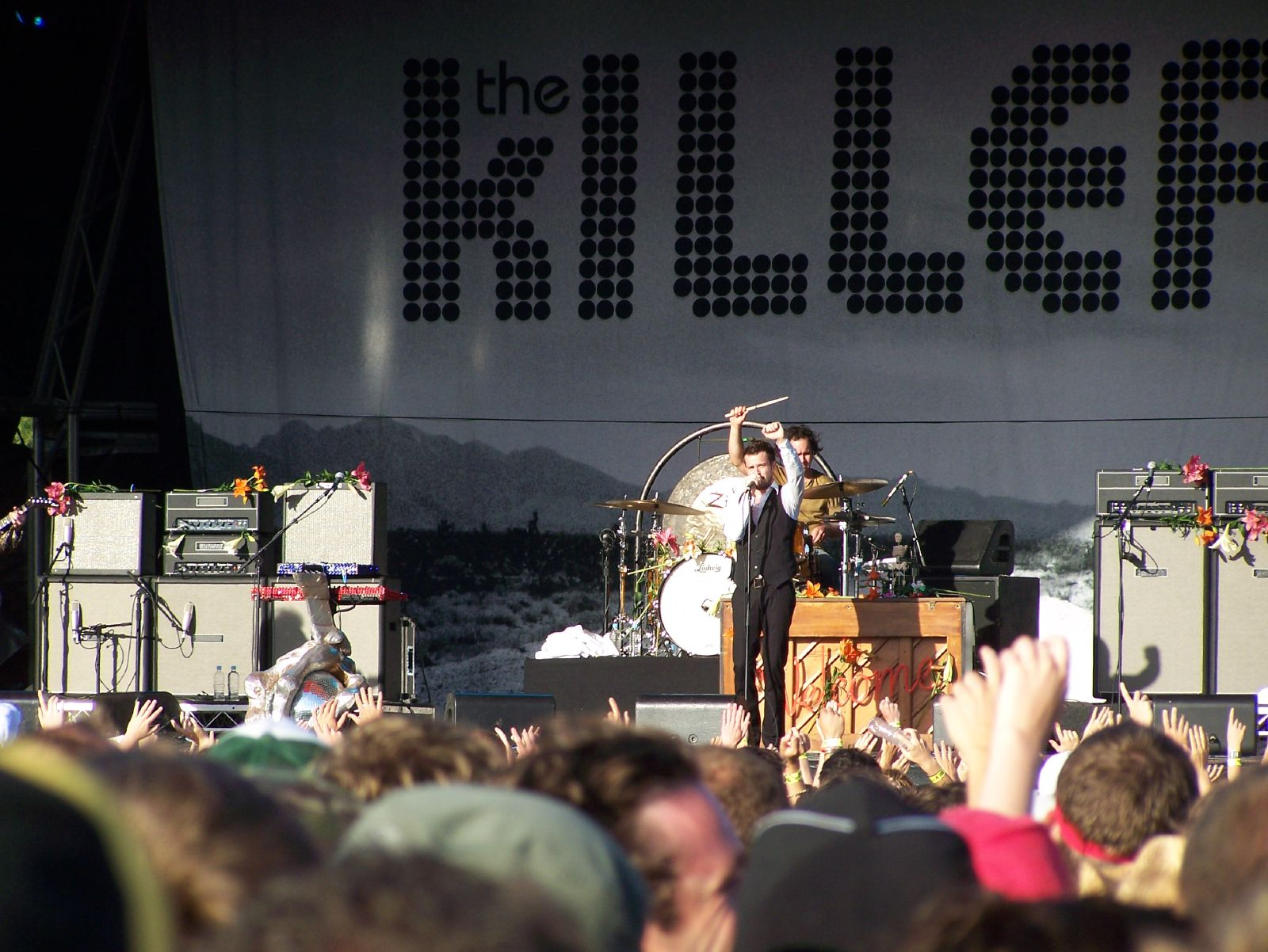 The Killers on stage.